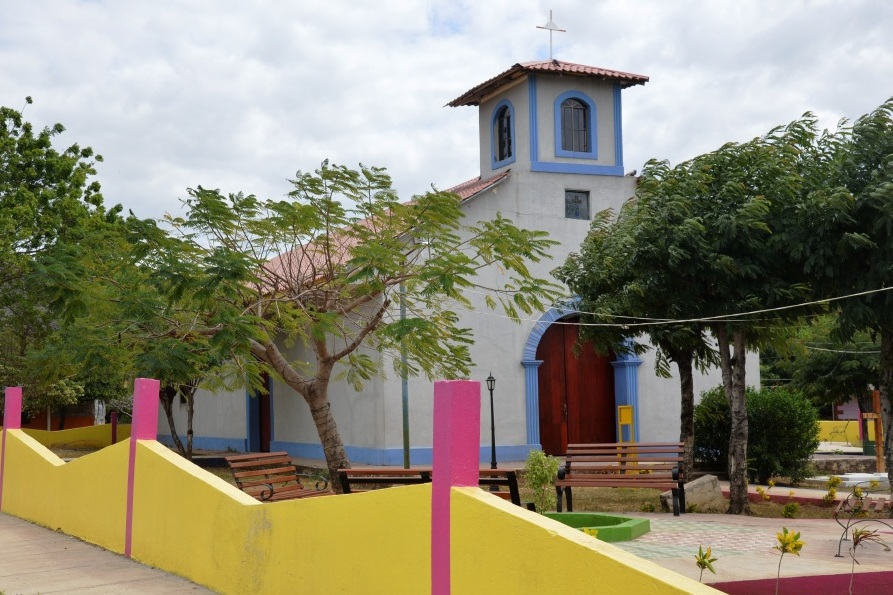 La iglesia en El Jicaral, Nicaragua.